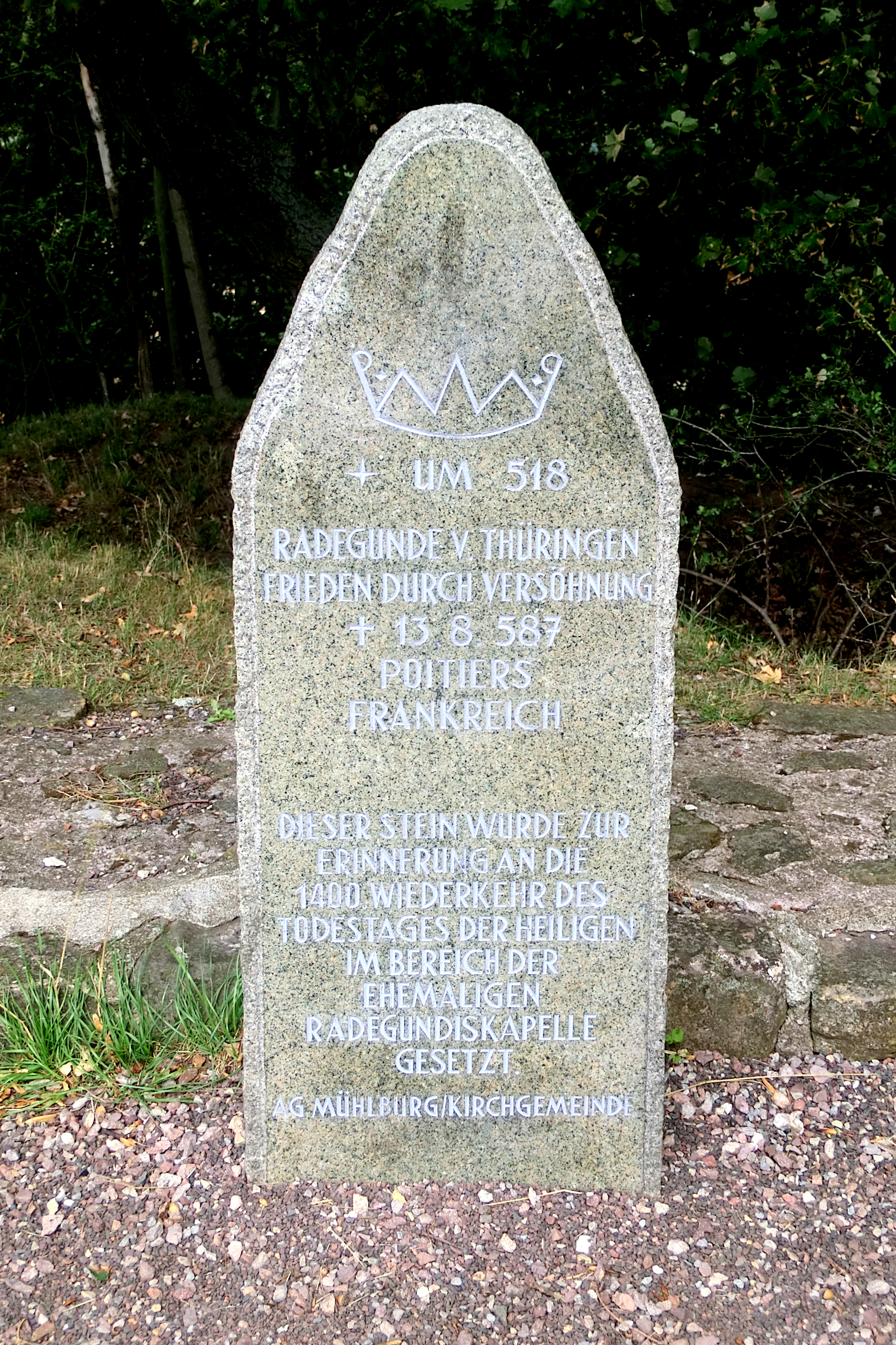 Memorial stone for Radegundis at Mühlburg, Thuringia